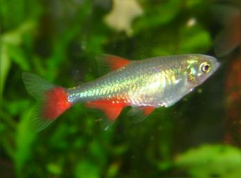 Aphyocharax anisitsi, male